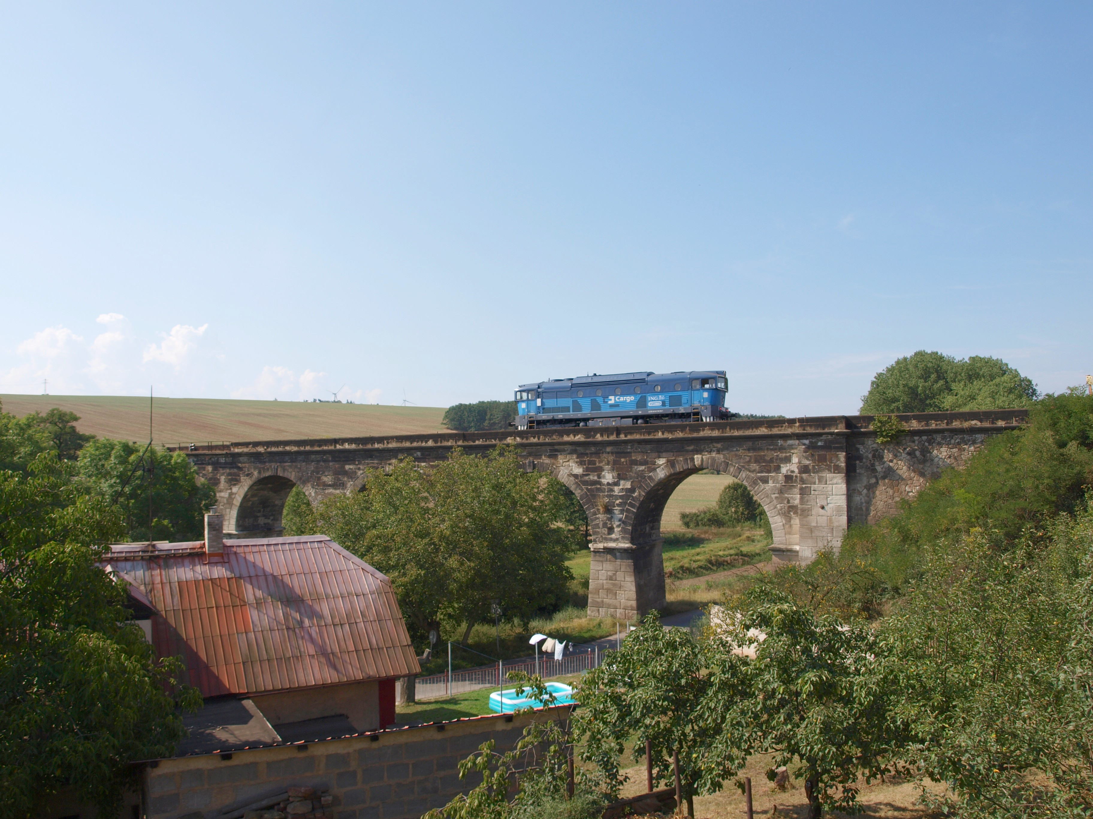 Viaduct on train track Kralupy – Slaný with locomotive class 753.7 ČD Cargo, Podlešín, Kladno District, Czech Republic